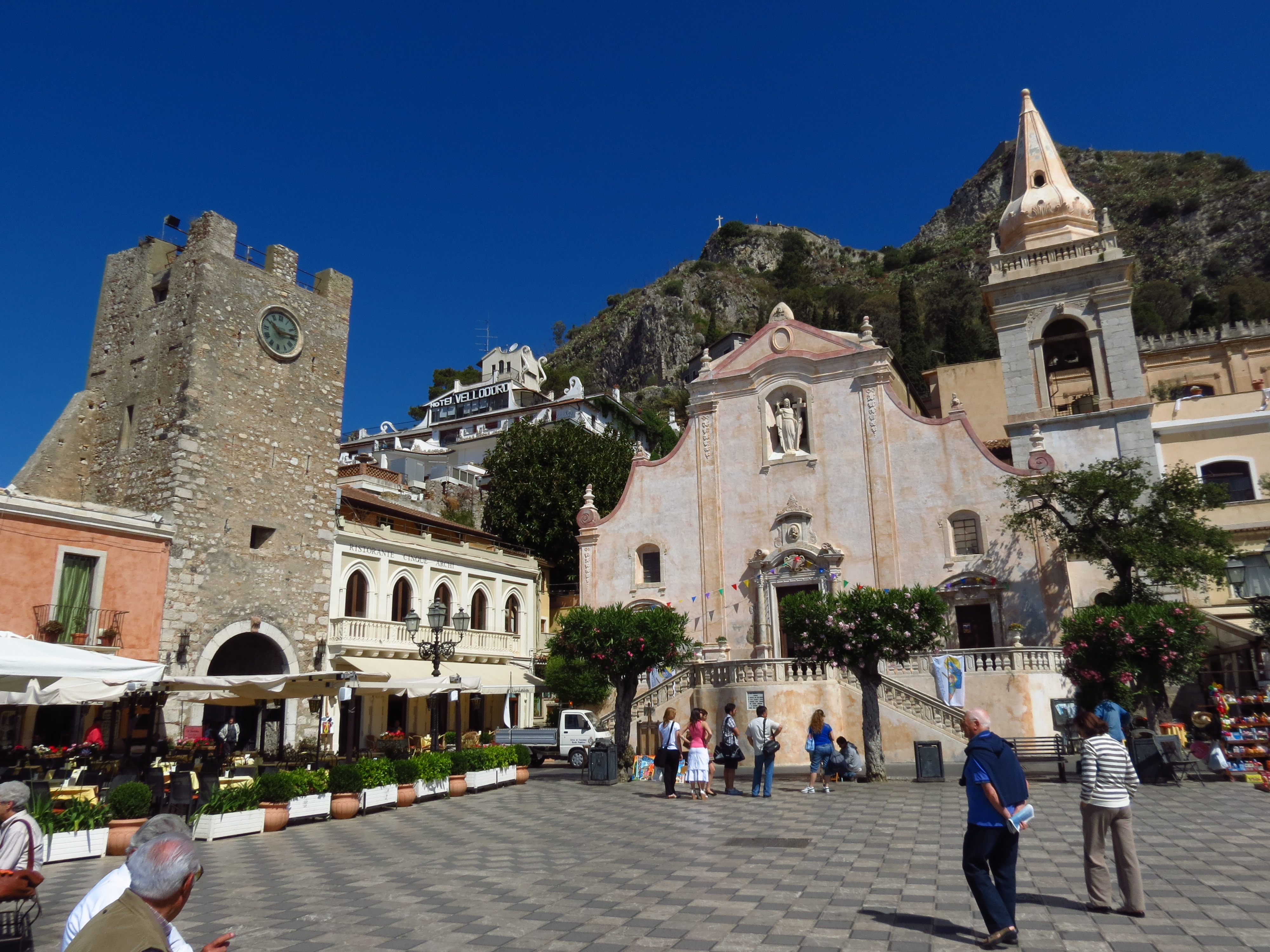 Piazza IX Aprile (Taormina)